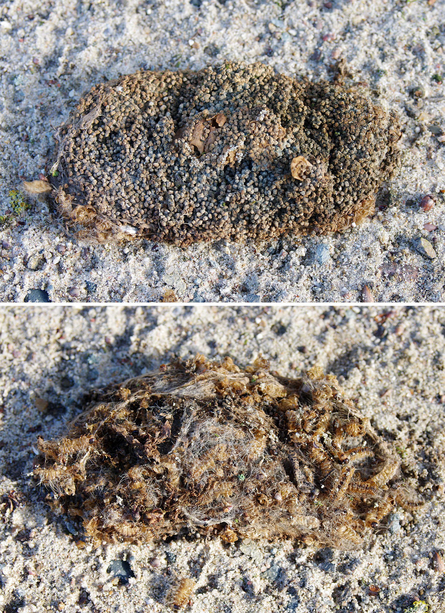 Last year’s web cluster with droppings and skinning leftovers from caterpillars of Oak Processionary (Thaumetopoea processionea), fallen from a tree. Top and bottom view.